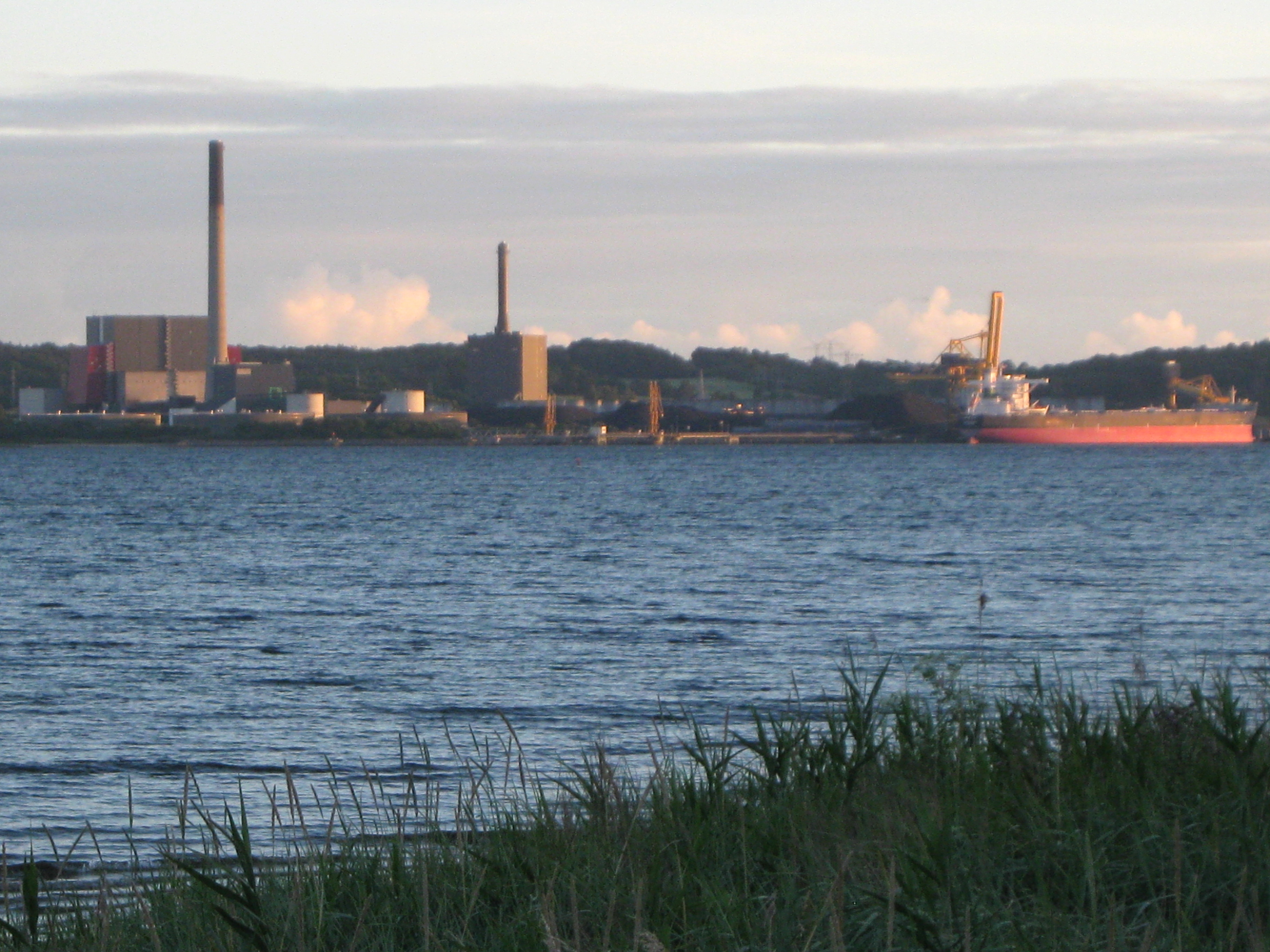 The power plant "Enstedværket" by the firth "Aabenraa Fjord" seen from Løjt Land in Southern Jutland, Denmark.